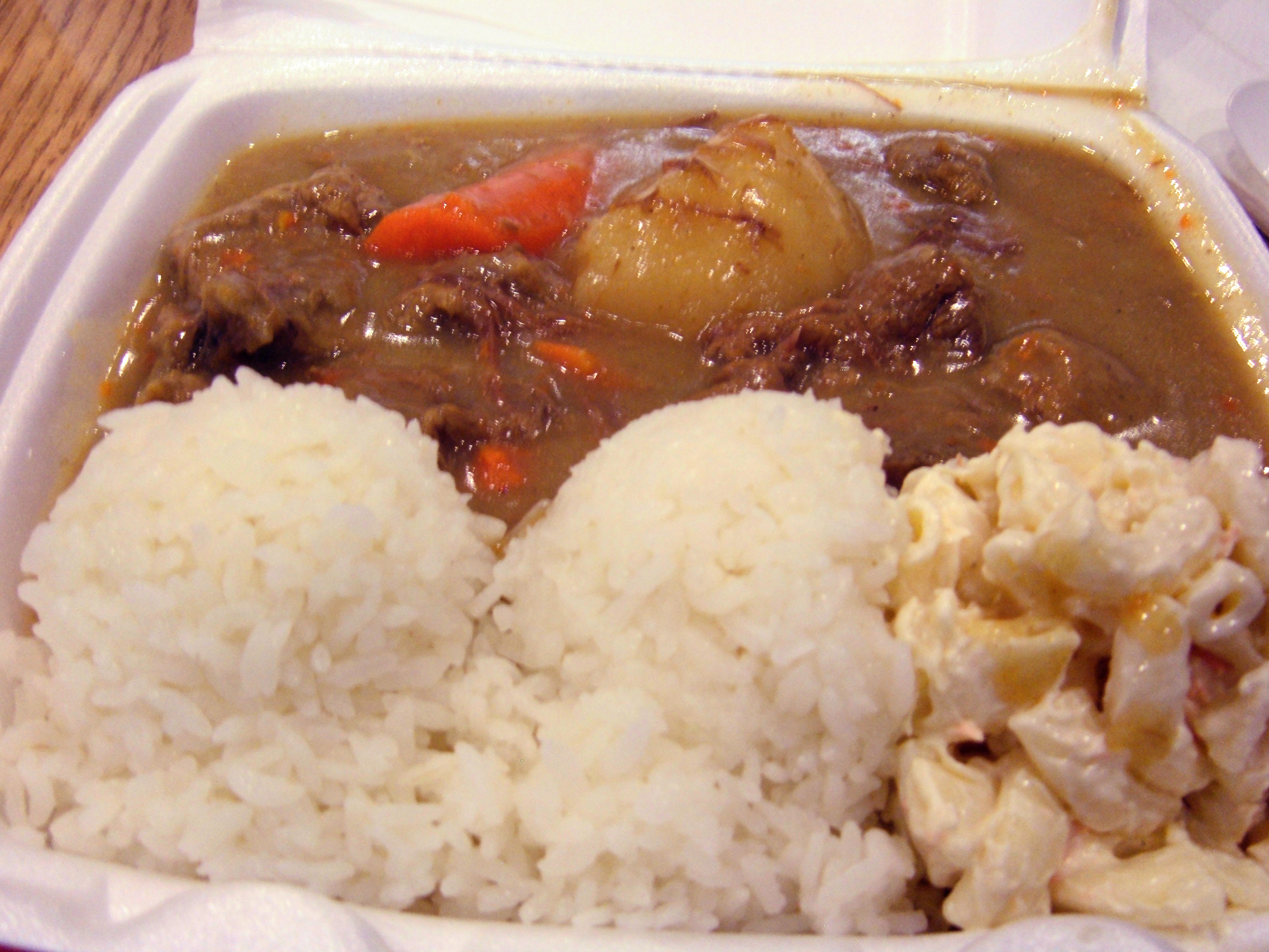 An L&L Hawaiian Barbecue beef curry meal.